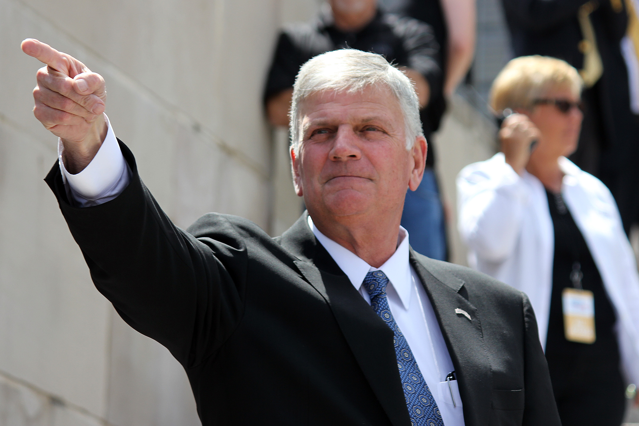 Franklin Graham during his Decision America tour at the Nebraska State Capitol Building in Lincoln, Neb.